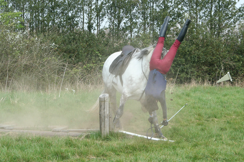 Flying lessons during a cross country schooling session. Neither horse nor rider were hurt. (part of a sequence of 6 shots!)